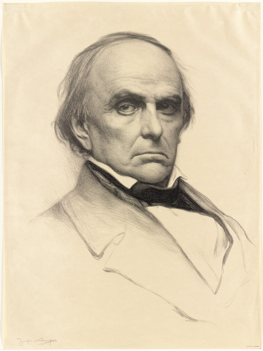 File name: 07_11_000965 Title: Daniel Webster Creator/Contributor: DeCamp, Joseph, 1858-1923 (artist); L. Prang & Co. (publisher) Date issued: Copyright date: 1897 Physical description note: Genre: Chromolithographs; Portrait prints Location: Boston Public Library, Print Department Rights: No known restrictions Flickr data on 2011-08-05: Camera: Sinar AG Sinarback 54 FW, Sinar m License: CC BY 2.0 User: Boston Public Library BPL